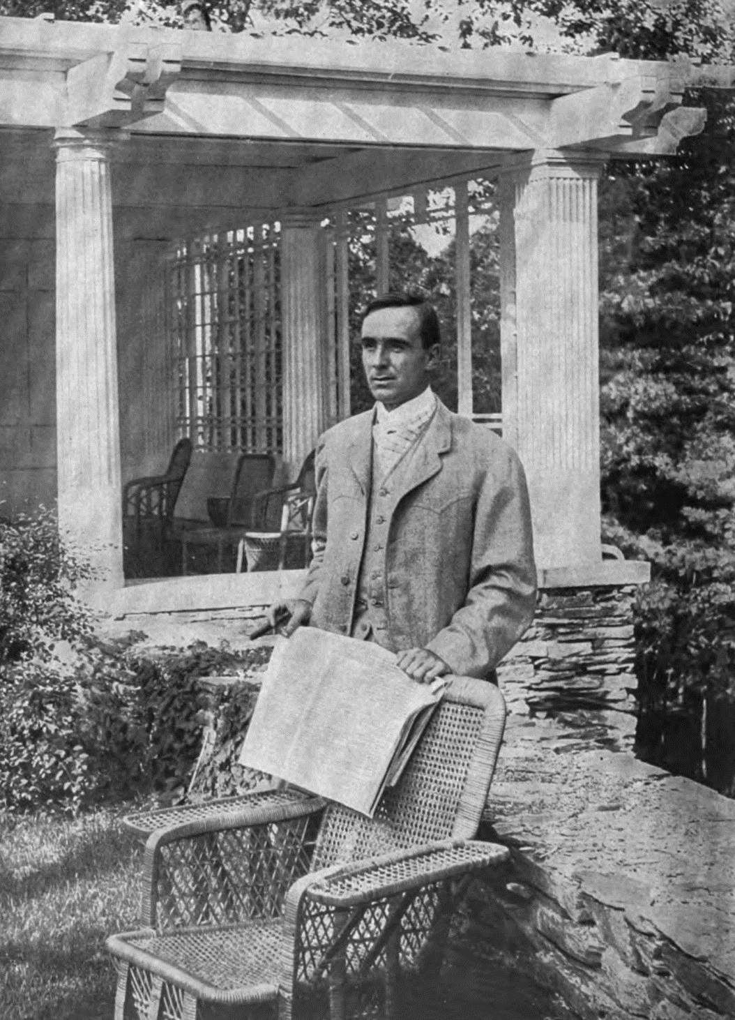 Winston Churchill at his home, Windsor, Vt.